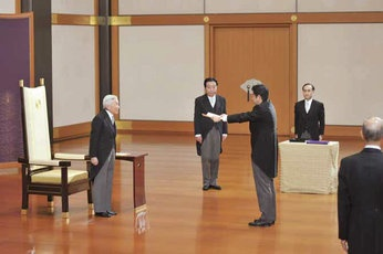 Emperor Akihito appointed Shinzō Abe as the Prime Minister at the Imperial Palace in Chiyoda Ward, Tōkyō Metropolis on December, 2012. Yoshihiko Noda, former Prime Minister, assisted Emperor Akihito.